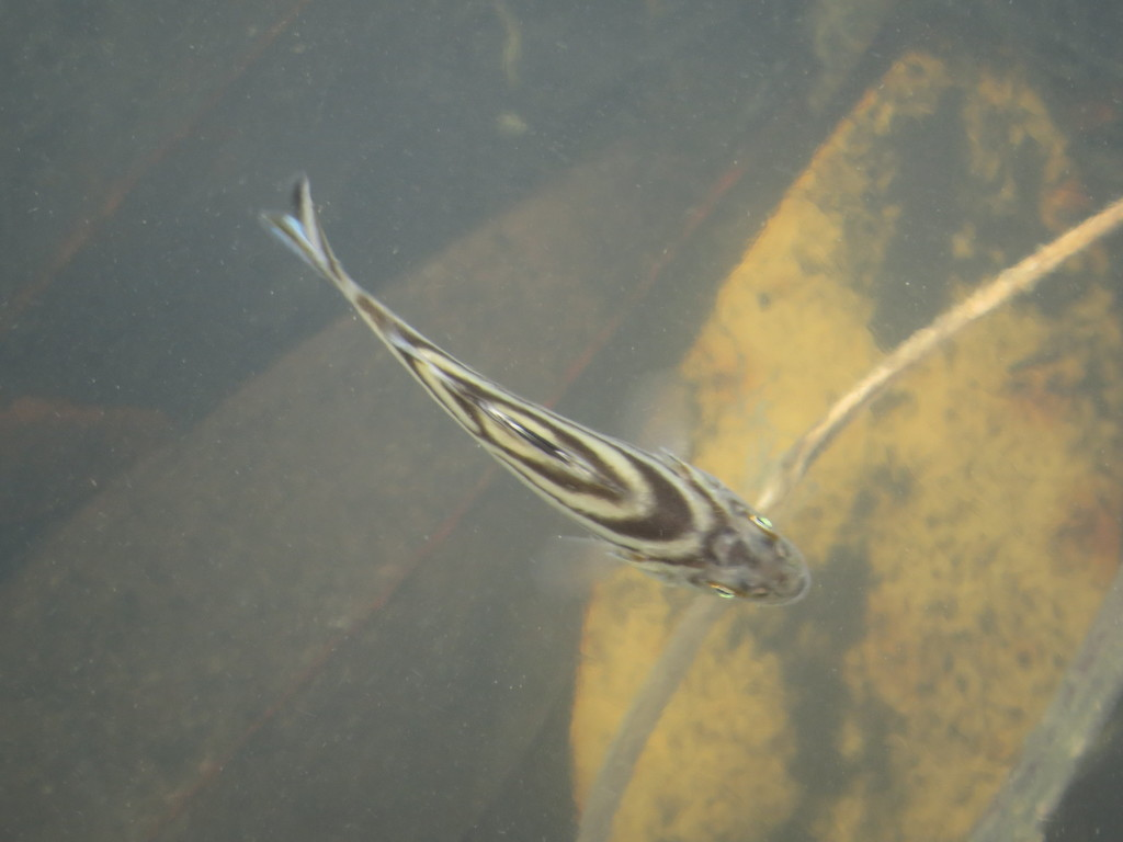 Crescent grunter Terapon jarbua Cairns QLD, Australia